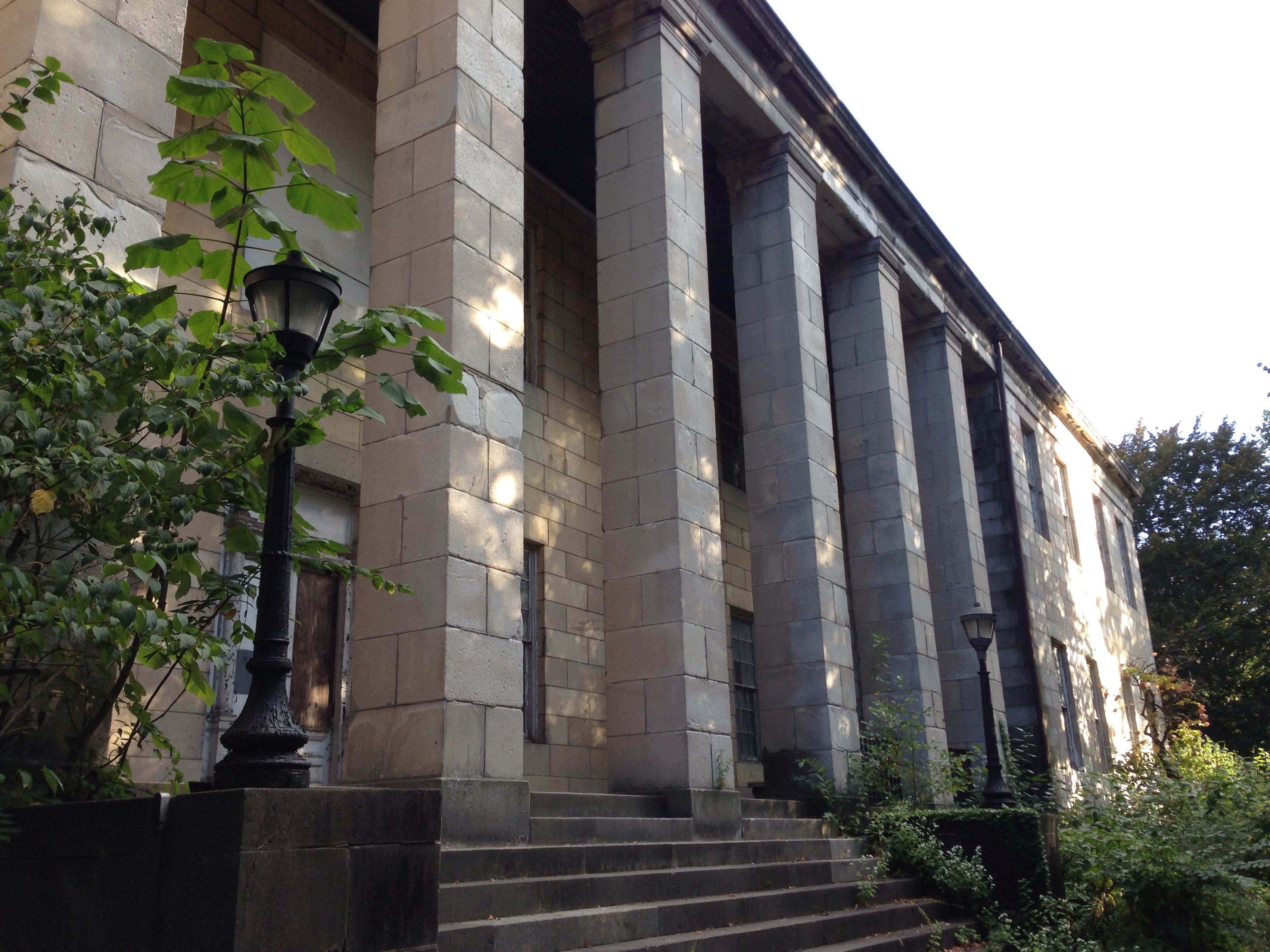 The Greek revival Brooklyn Navy Yard hospital profiled by the New York Times ( last week. We just don't build hospitals like we used to.